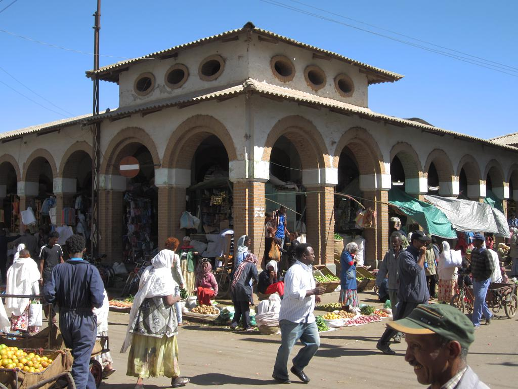 The Central Market or Shuq in Asmara, Eritrea, is busiest on Saturdays.